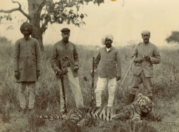 J.C. Faunthorpe (30 May 1871 – 1 December 1929) hunting tigers in India